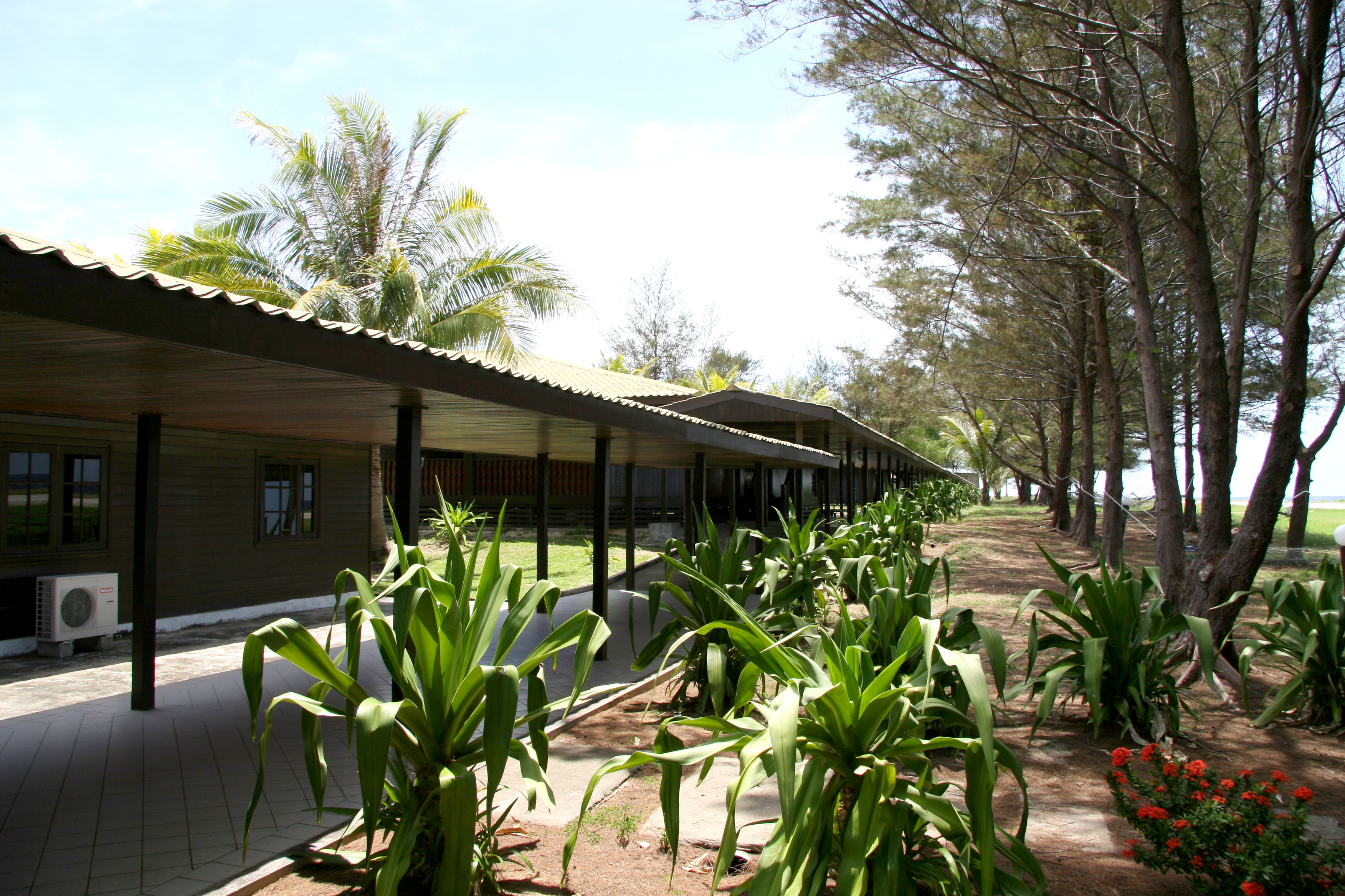 Swallow Reef (Pulau Layang-Layang) in Spratly Islands, South China Sea